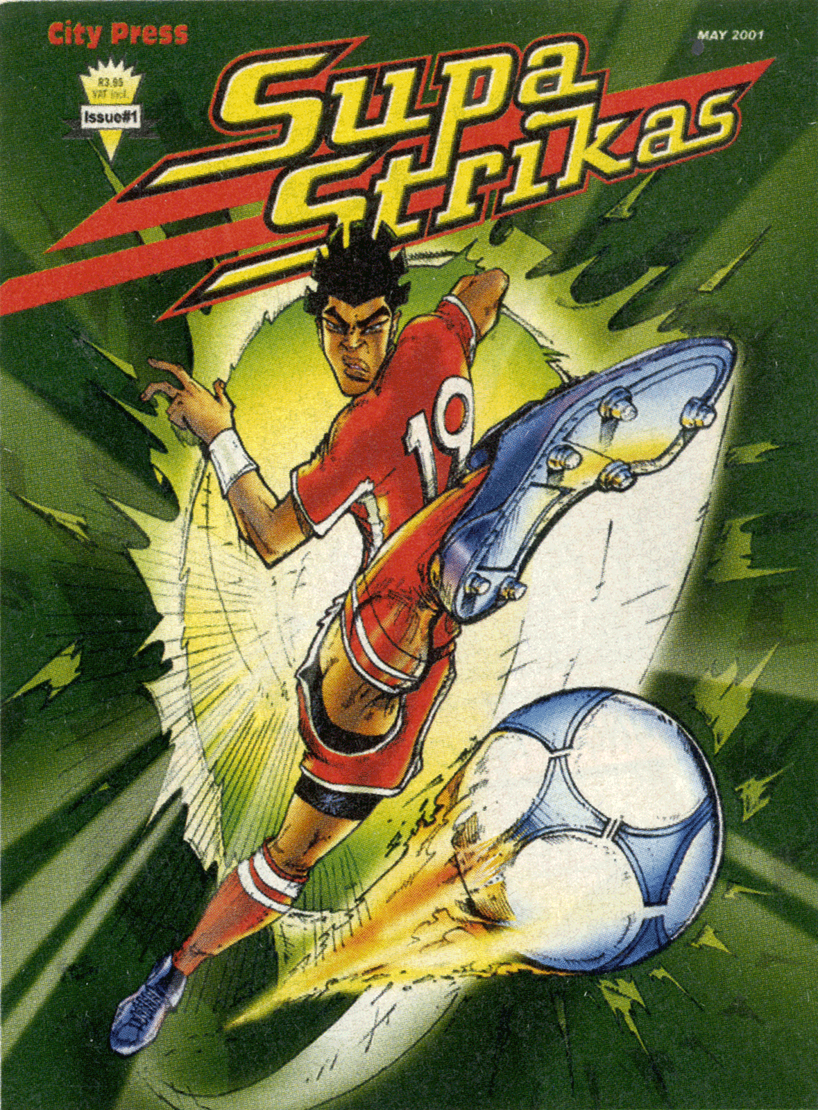 Supa Strikas South Africa First Edition Cover